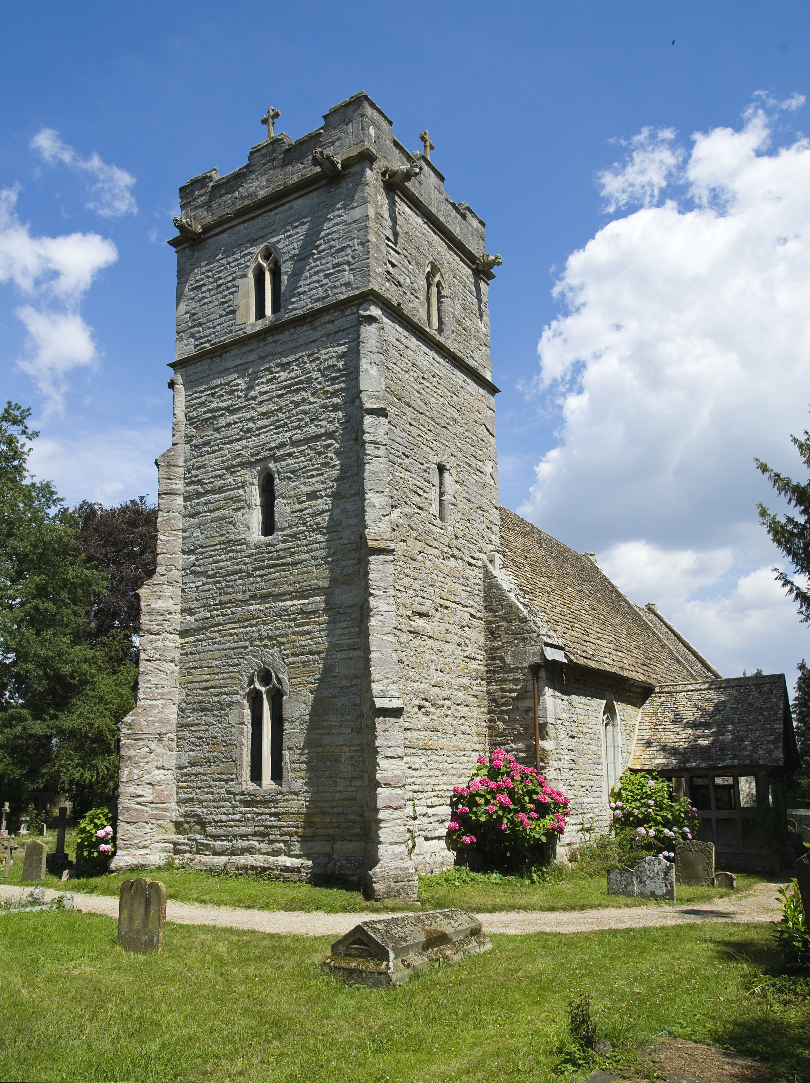 The parish church, called St. Peter's when it was established in the 14th century is now dedicated to St. Mary. It has a square tower which still retains the earlier dedication to St Peter. The tower, which houses the church's four bells, is decorated with crenellations and gargoyle like figures that double as waterspouts. Inside the church are several notable artifacts including three stained glass windows, a Norman font and a monument to lady Pauncefort for sending her "right hand" to Palestine to ransom her lord from the infidels.